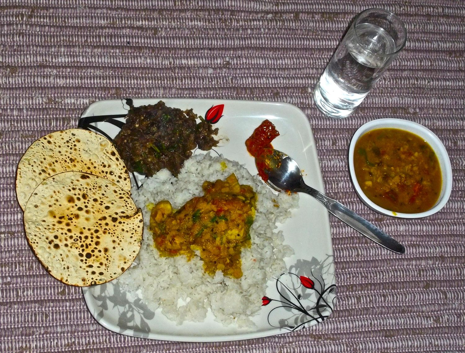 Odia cuisine from the Indian state of Odisha (Orissa); Rice, Dalama, Baigana bharata, pampada (Papad) and pickle. This media file is uploaded with Odia loves Wikipedia English |italiano |македонски |മലയാളം |ଓଡ଼ିଆ +/−